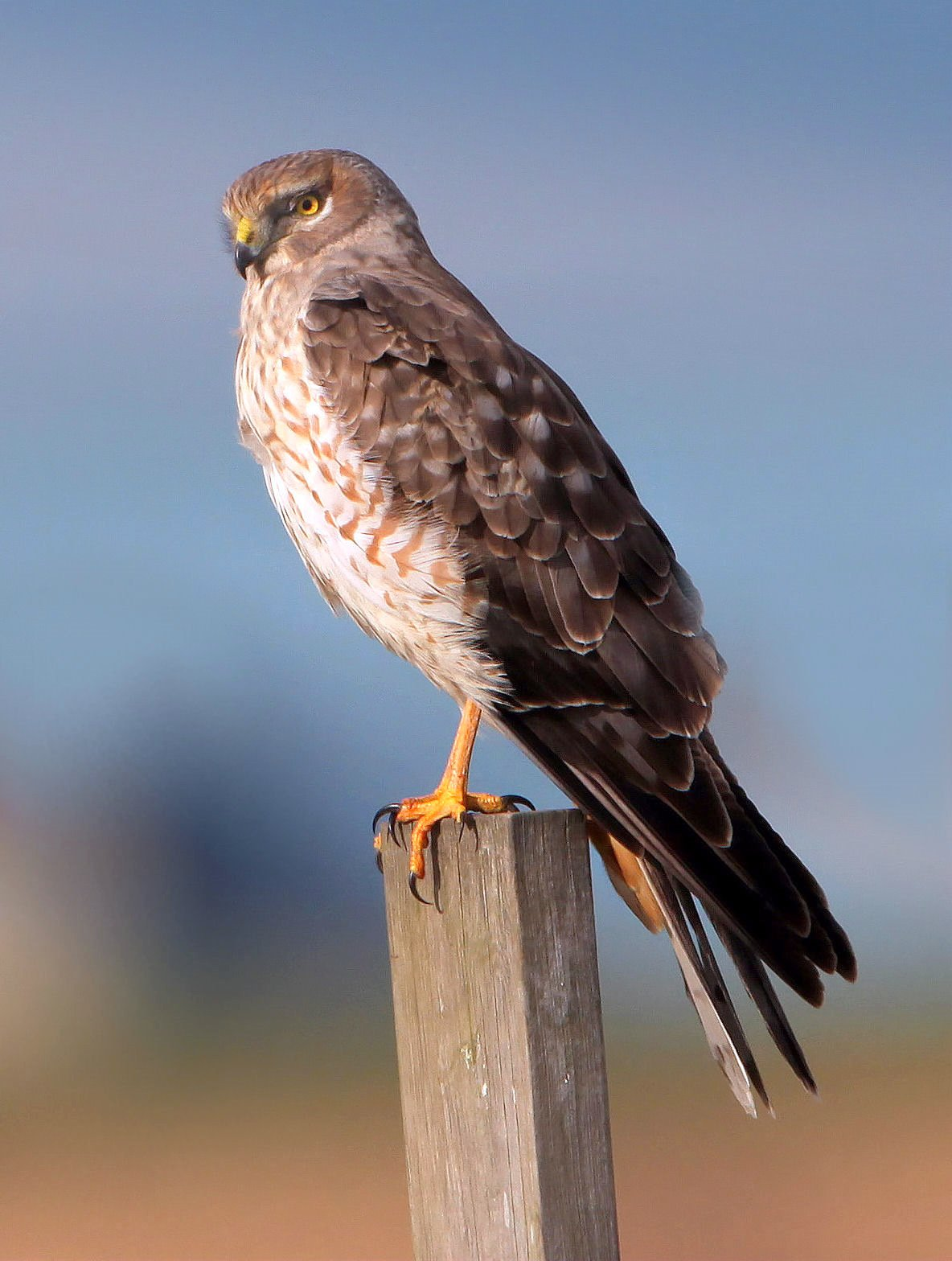 Northern Harrier (Circus (cyaneus) hudsonius) on a fencepost, Boundary Bay, Canada/United States.